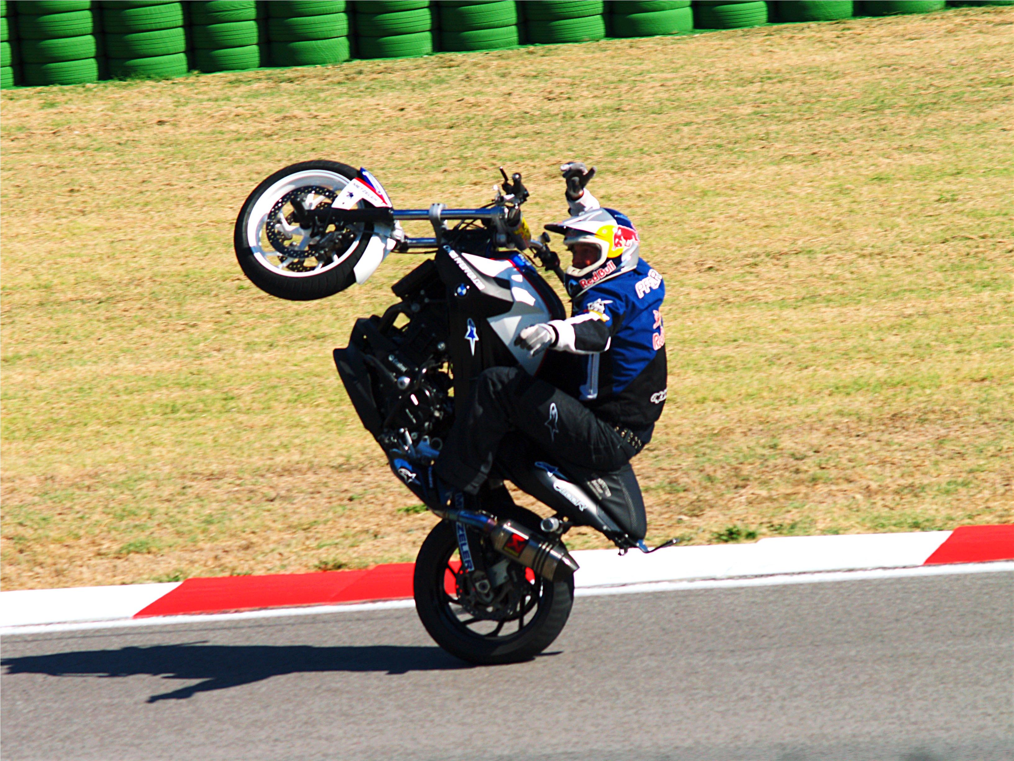 Chris Pfeiffer showing a great trick at Misano Gran Prix. He is riding a BMW F800R motorcycle